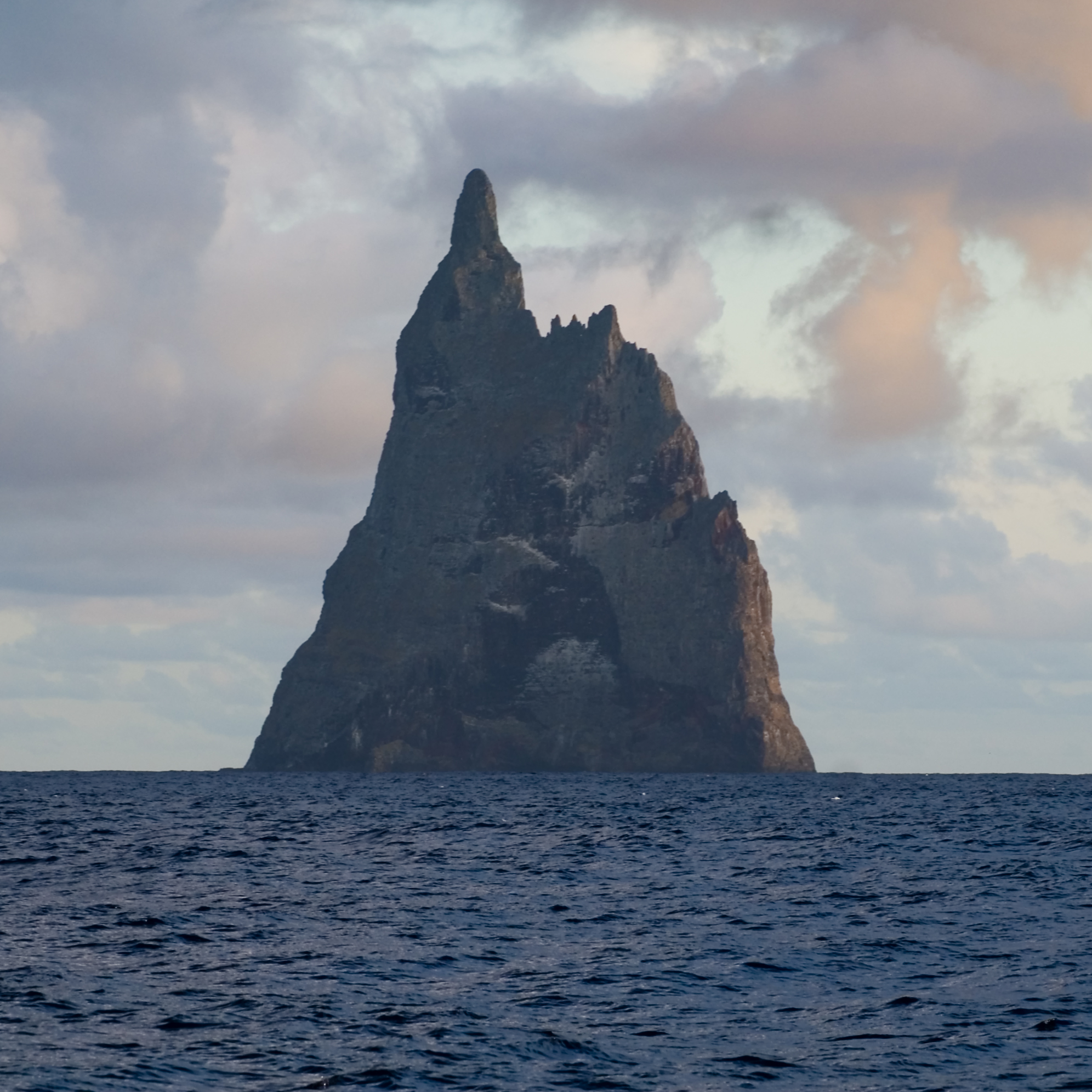 Ball’s Pyramid, 13 miles South of Lord Howe Island.